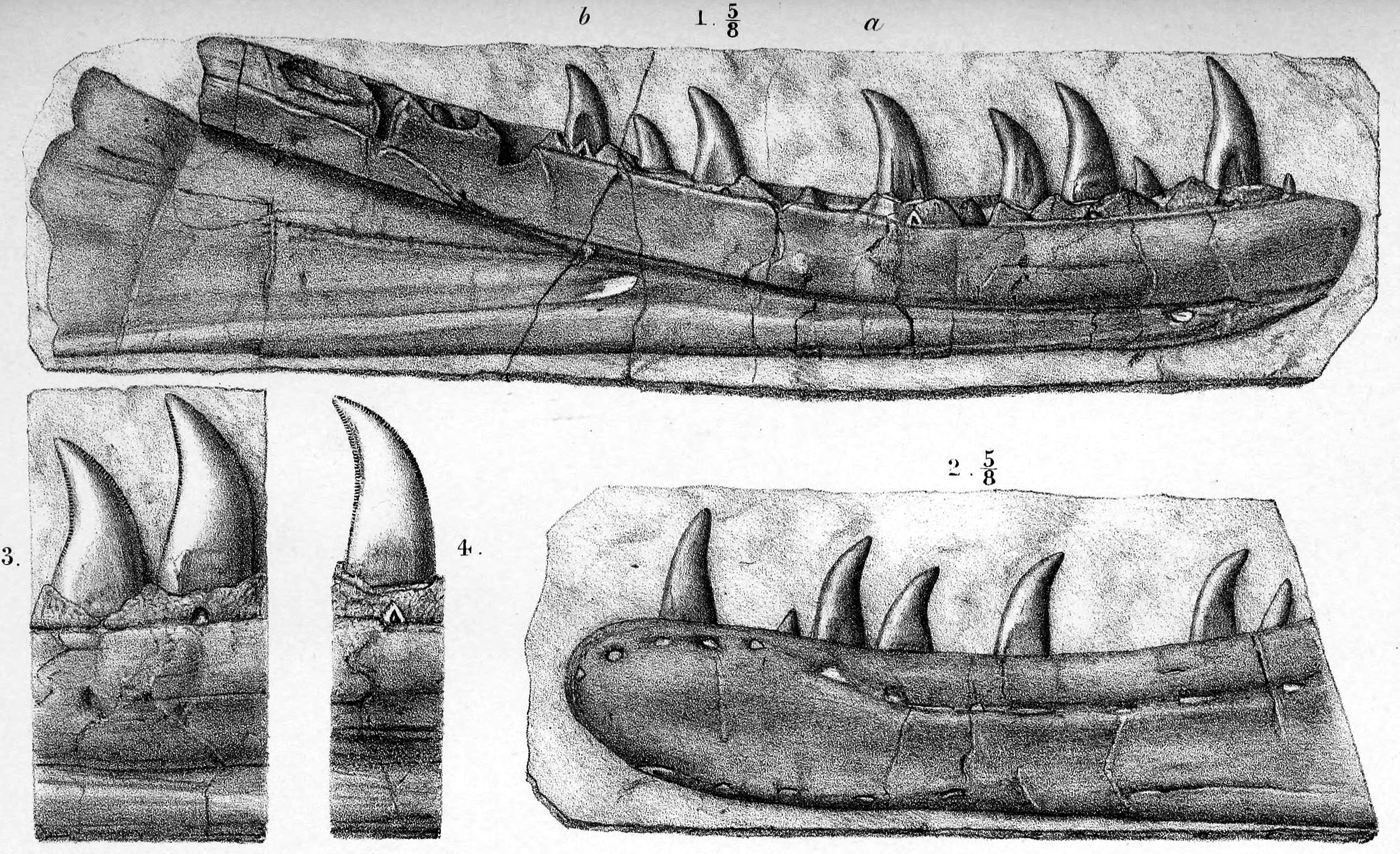 Mold of the left dentary of "Zanclodon" cambrensis (aka "Newtonsaurus").